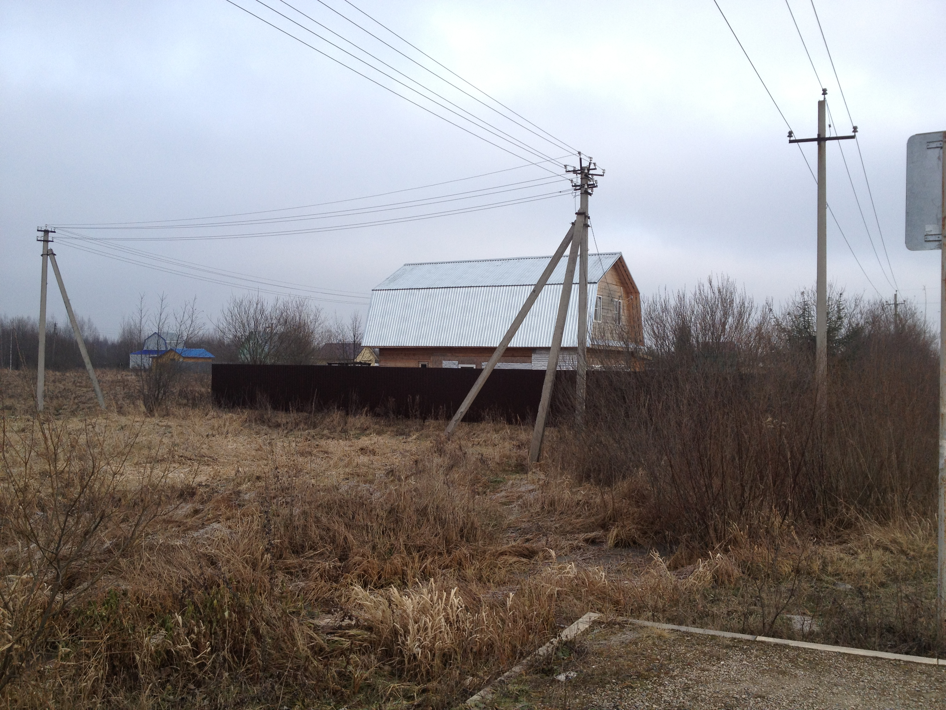 Sorokino (Taldomsky district, Moscow oblast).